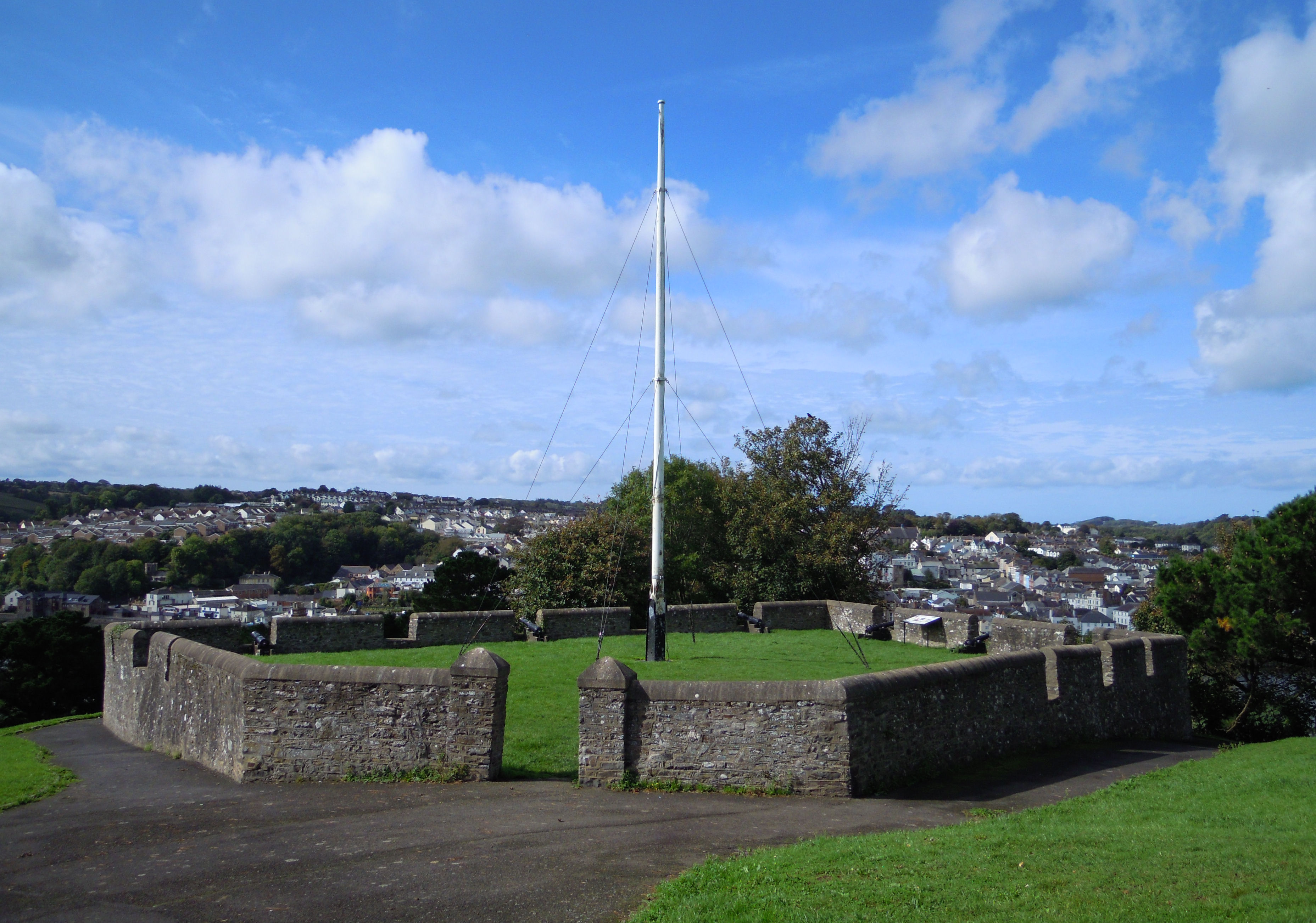 View of the interior of Chudleigh Fort at East-the-Water in Bideford in the UK